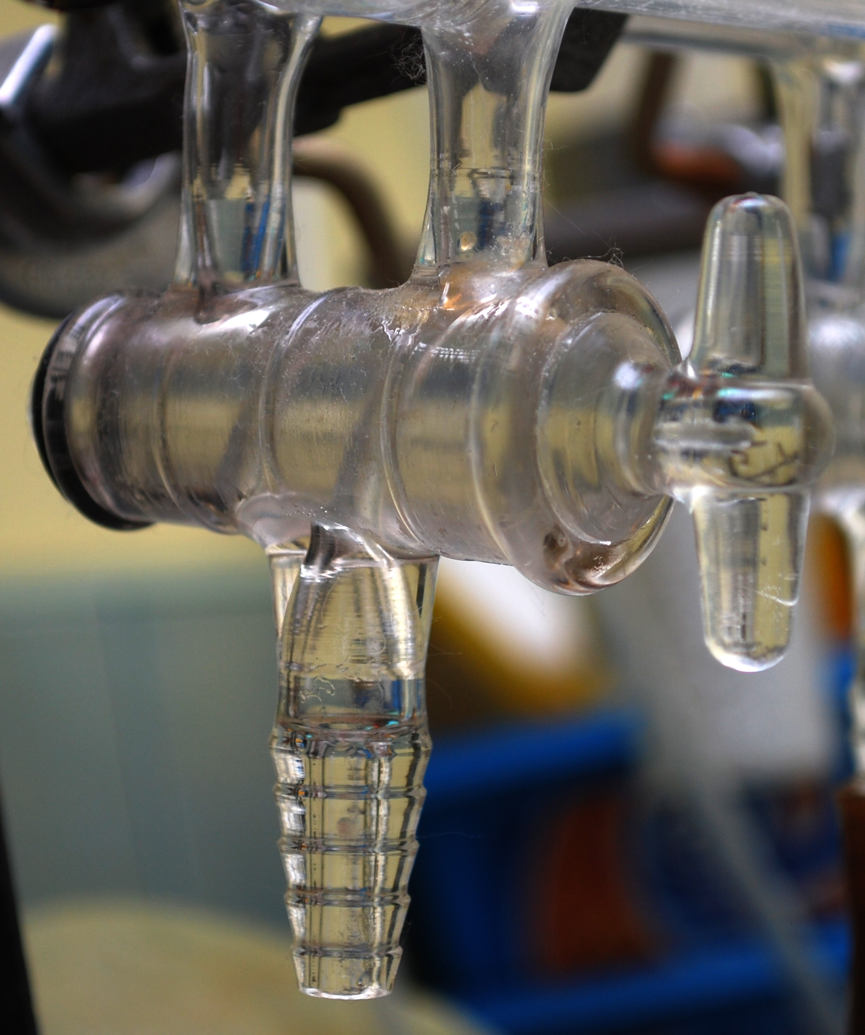 Double high vacuum tap